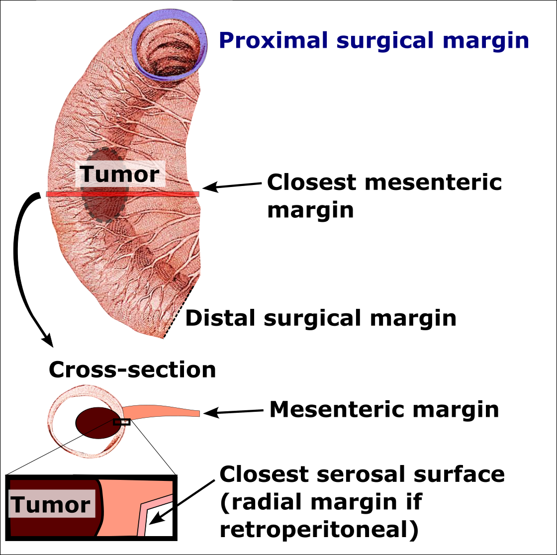 Edges and margins in intestinal tumor, including proximal and distal surgical edges and margins, mesenteric edge and margin, and peritoneal margin. Reference: (2009). "The efficient operation of the surgical pathology gross room". Biotechnic & Histochemistry 83 (2): 71–82. ISSN 1052-0295.